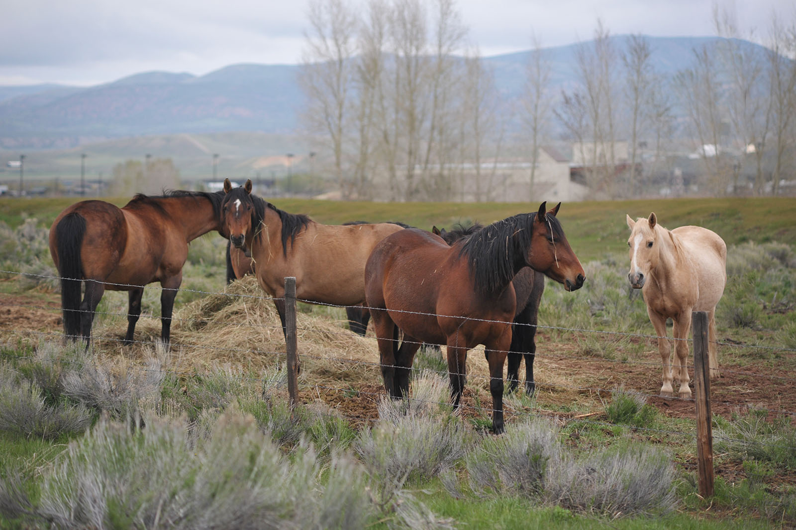 Horses